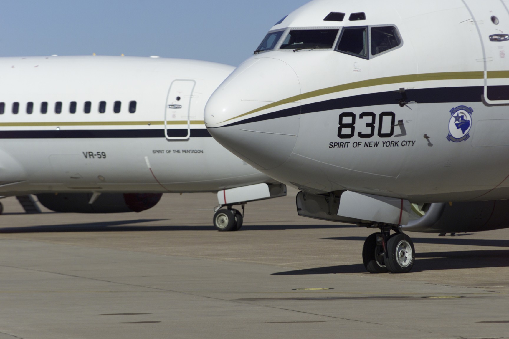 011221-N-7597H-009 Naval Air Station Joint Reserve Base, Ft. Worth, TX, Dec. 18, 2001 --- The C-40A Clipper is replacing the C-9 Skytrain for the Navy Reserve and VR-59 is the first squadron to receive theirs. It's a new configuration by Boeing of their 737, a 737-700C (C for Convertible). The C-40A is faster, quieter, meets current international noise regulations, and has extended flight capability. U.S. Navy Photo by Chief Photographer's Mate Michael A. Harnar (RELEASED)